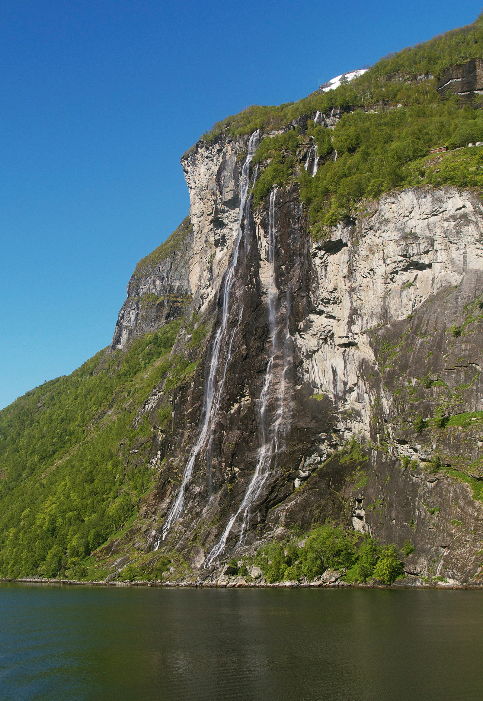 The Seven Sisters Waterfall, Geirangerfjord, Norway